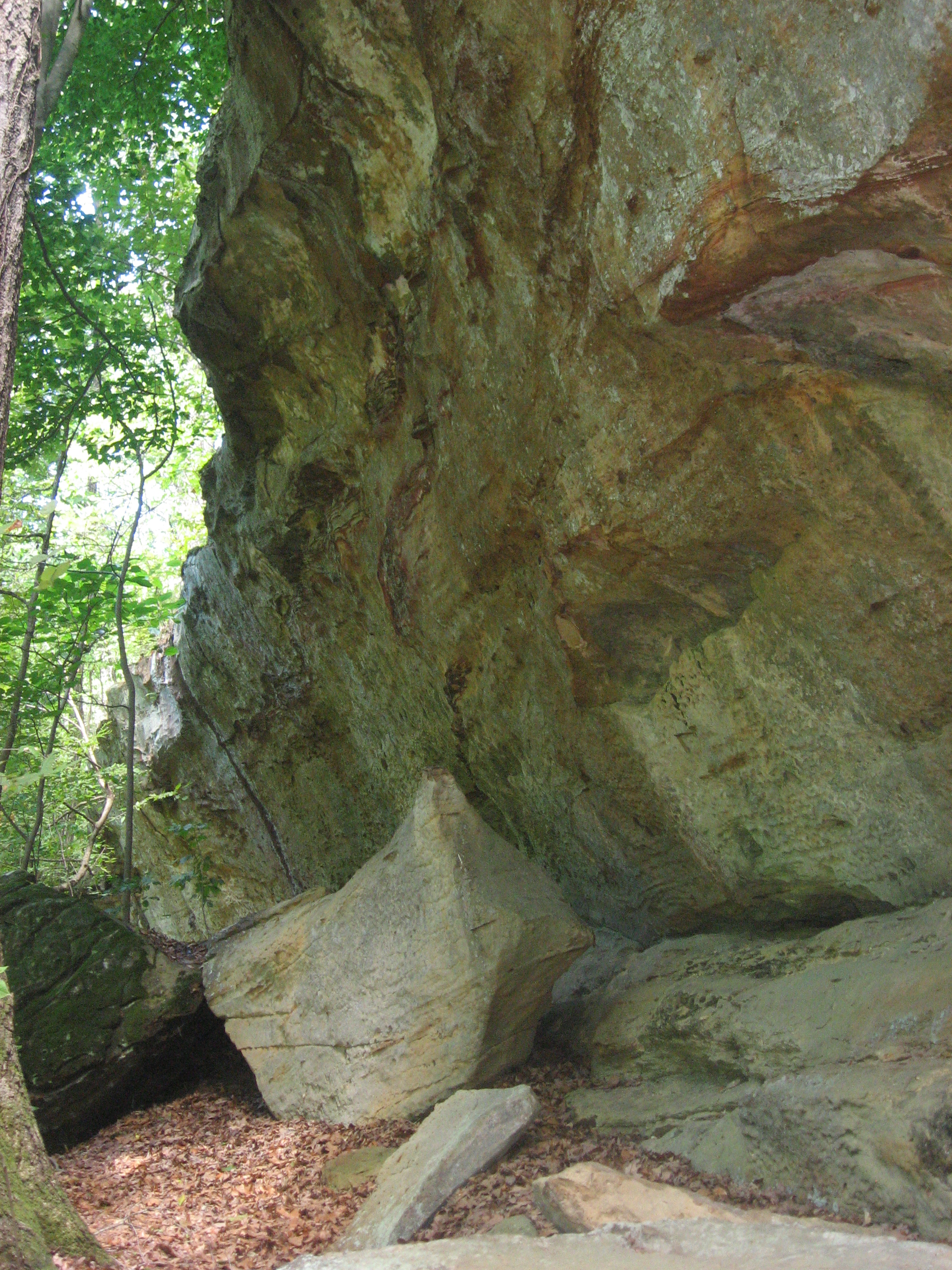 Overview of the main portion of the Tegtmeyer Site, a major petroglyph site in the Piney Creek Ravine State Natural Area east of Chester in Randolph County, Illinois, United States. Unfortunately, photography cannot easily depict any of these petroglyphs. The site has been designated an archaeological site and is listed on the National Register of Historic Places.